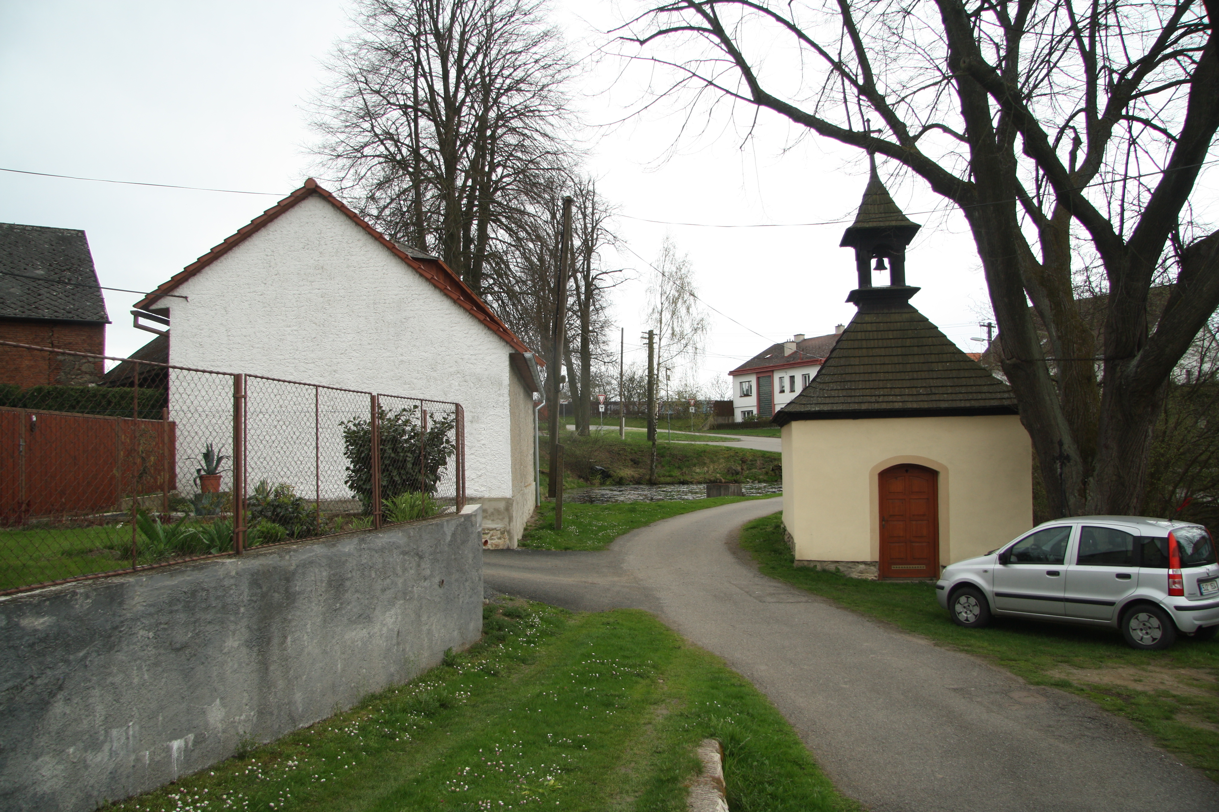 Center of Bradlo, Velký Beranov, Jihlava District.